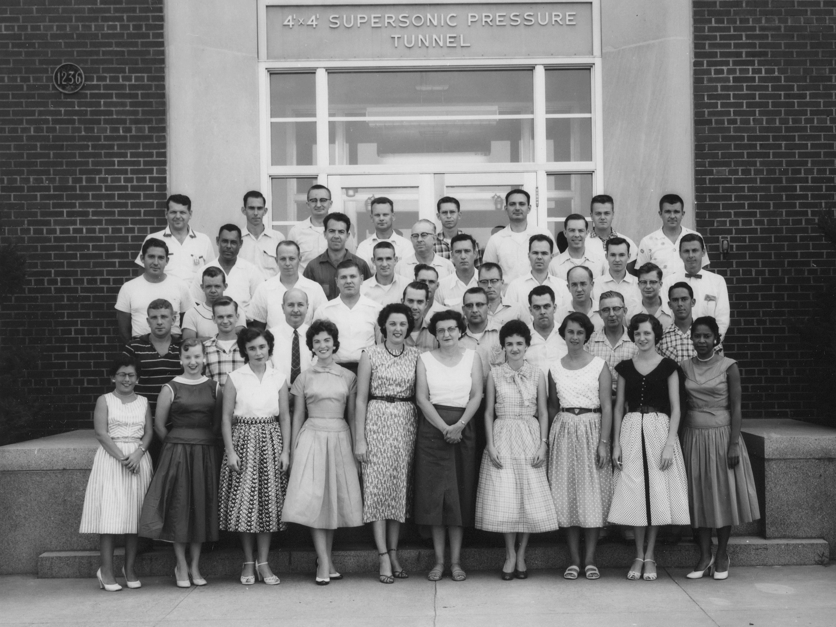 NASA human computers